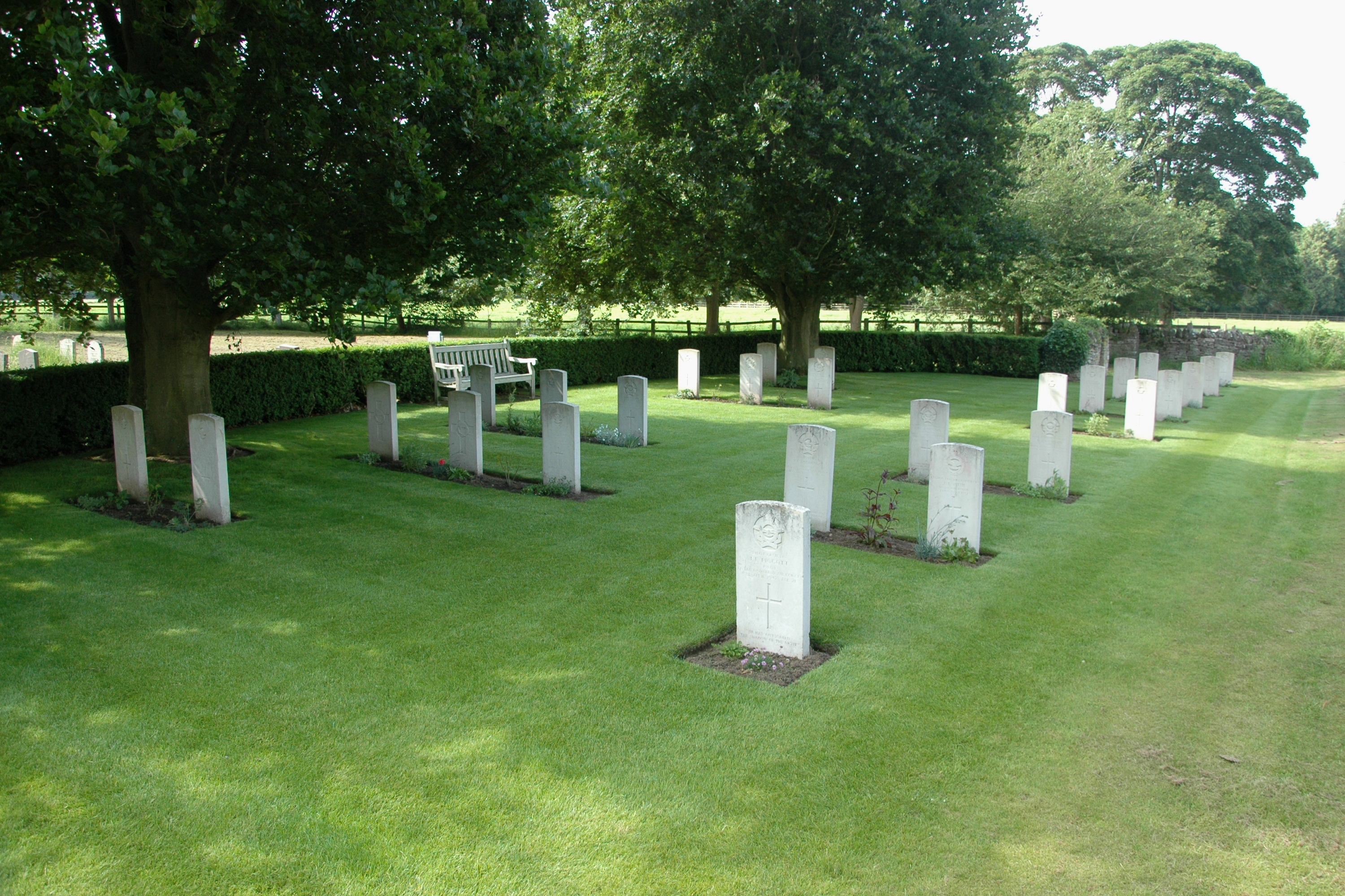 Commonwealth War Graves section of All Saints' parish churchyard, Middleton Stoney, Oxfordshire